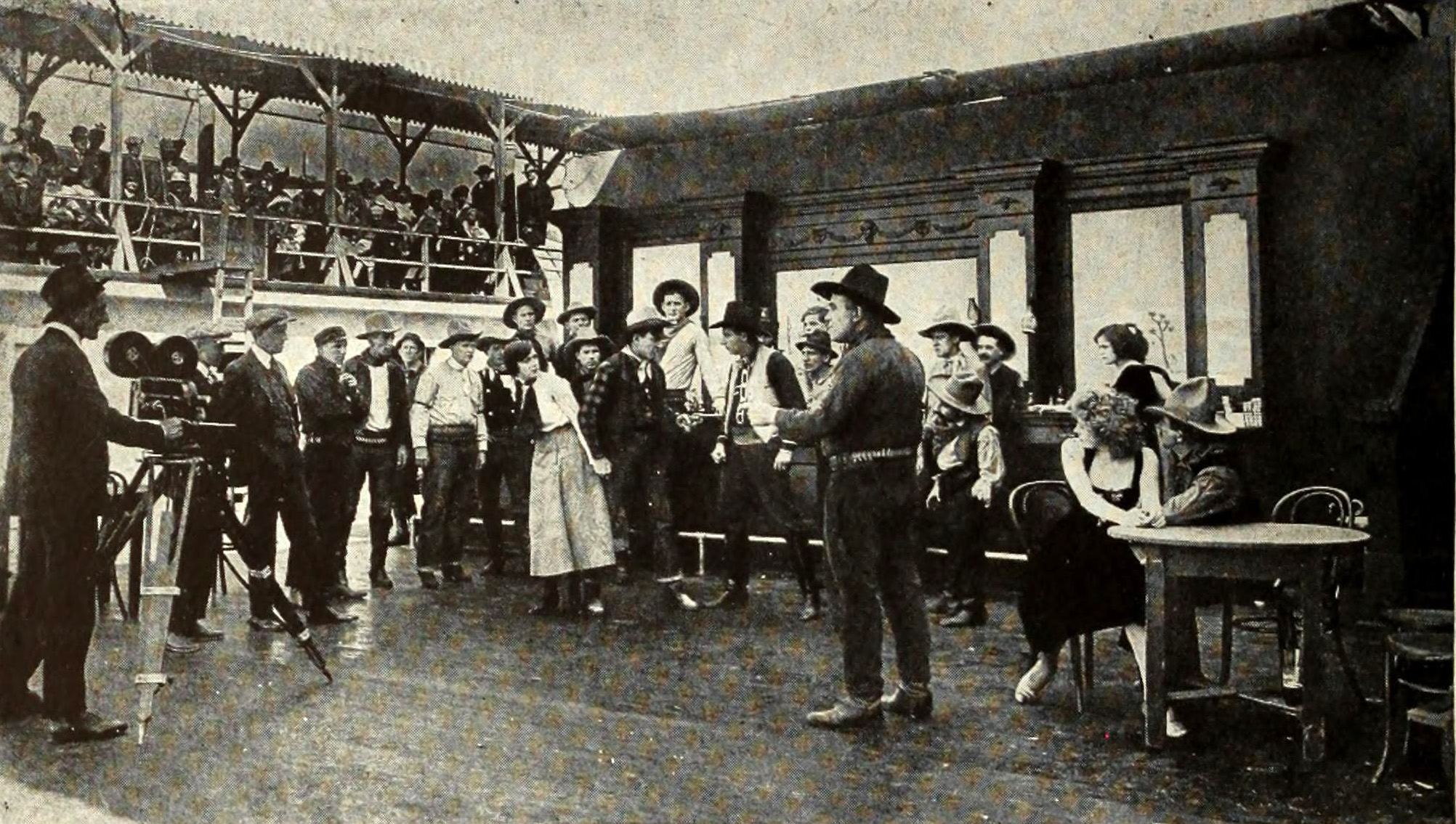 Filming of Love's Lariat with Harry Carey (right). Top left : visitors of the Universal studio.